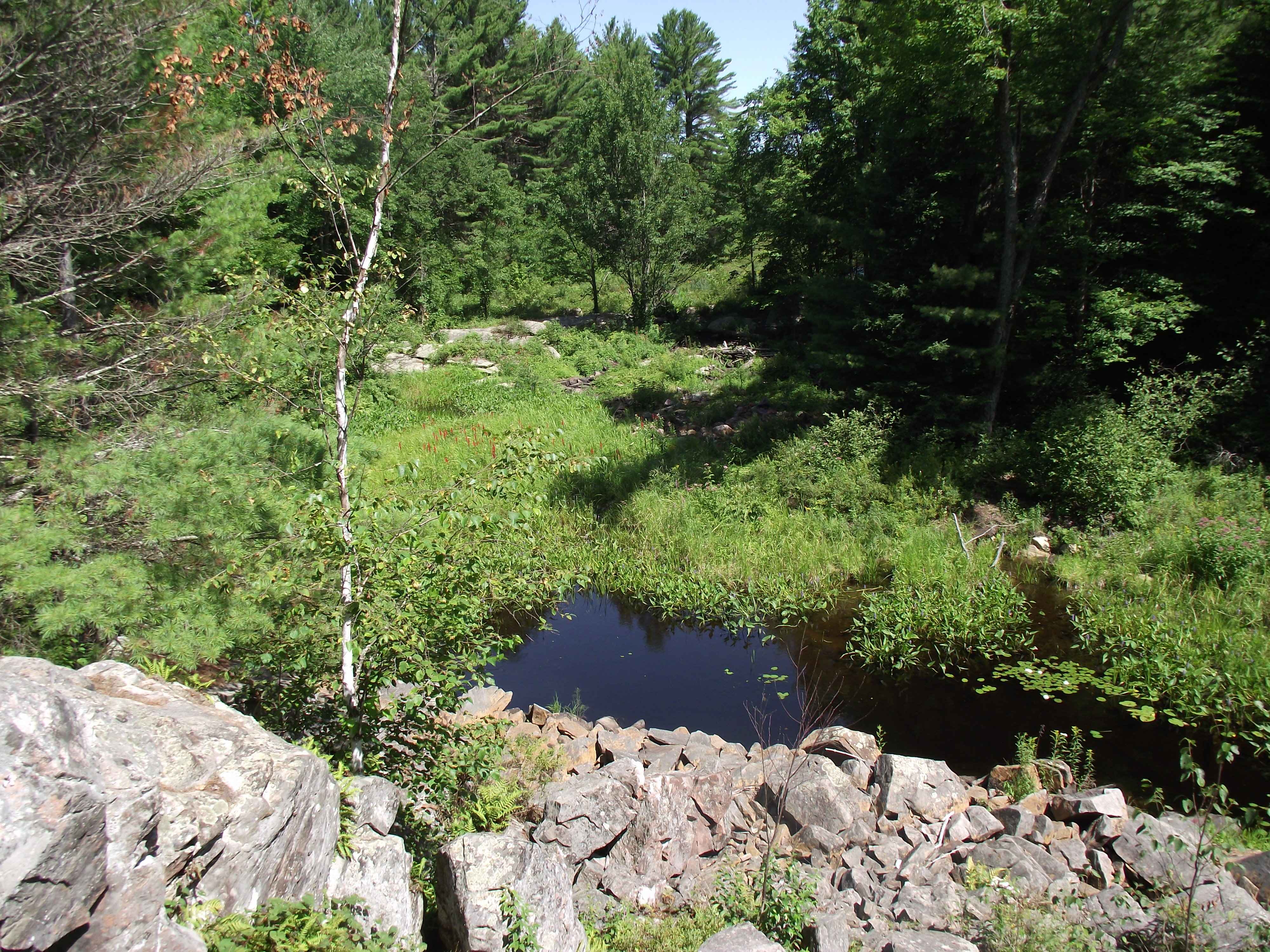 North of Essens Lake on the second loop of the Abes and Essens hiking trail in Bon Echo Provincial Park.